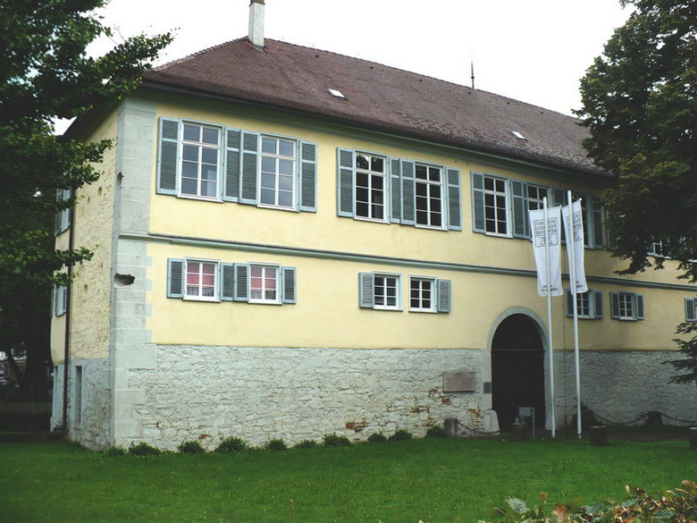 Castle in Kirchheim unter Teck, Germany